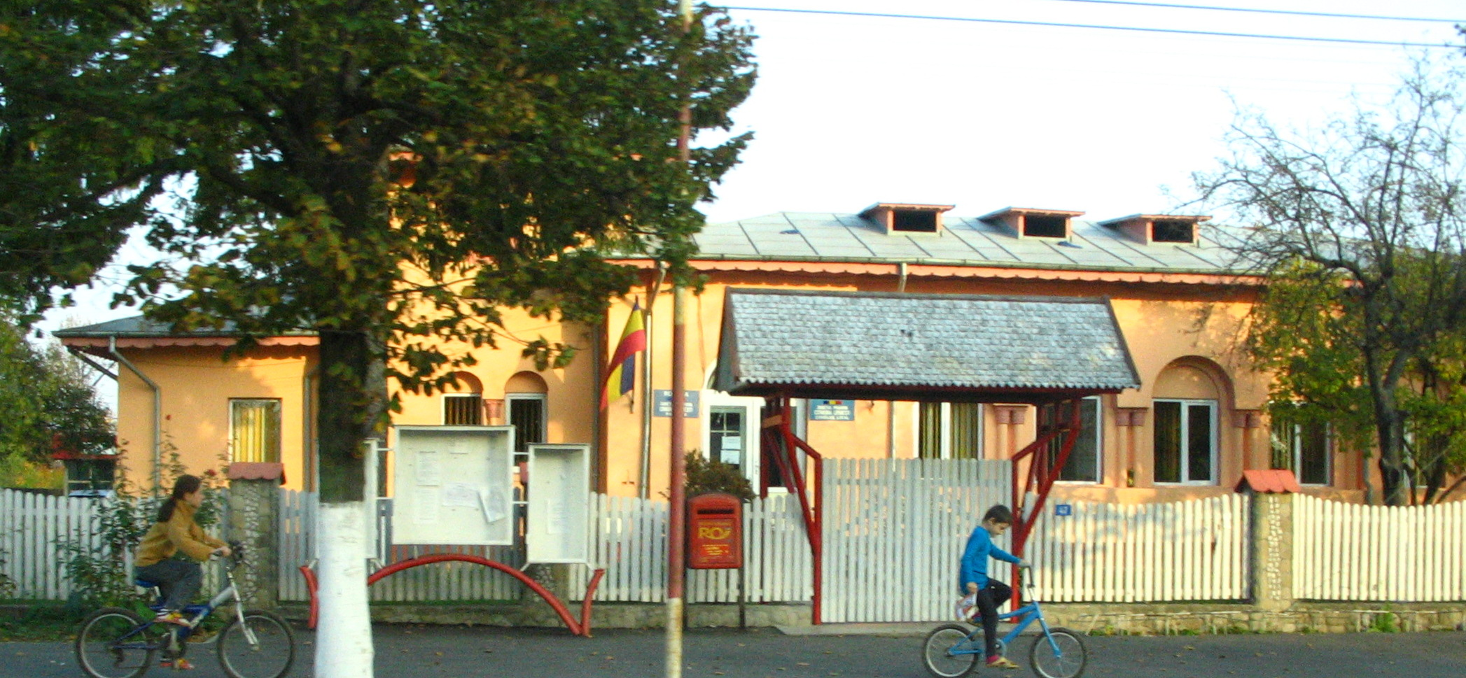 Lipăneşti, Prahova, Romania town hall